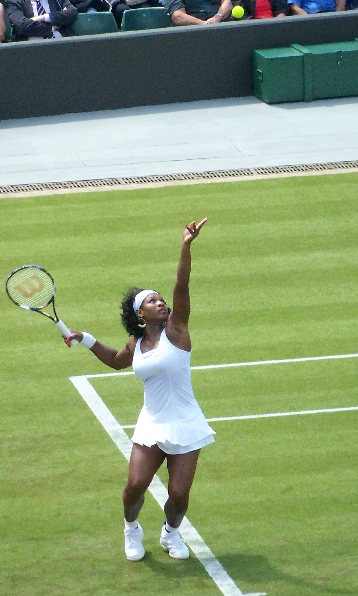 Serena Williams serves on Court 1 during her first round match against Kaia Kanepi of Estonia at Wimbledon 2008